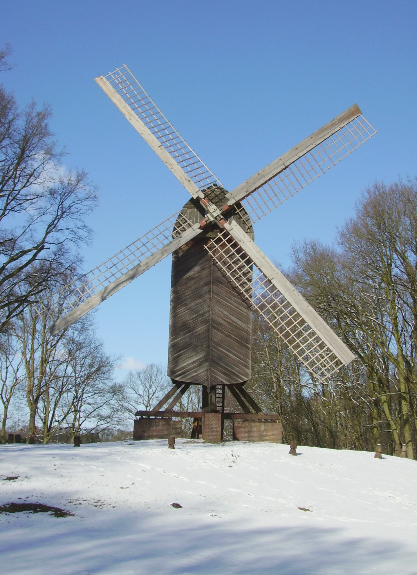 A post mill in the park of Speckenbüttel in Bremerhaven, Germany